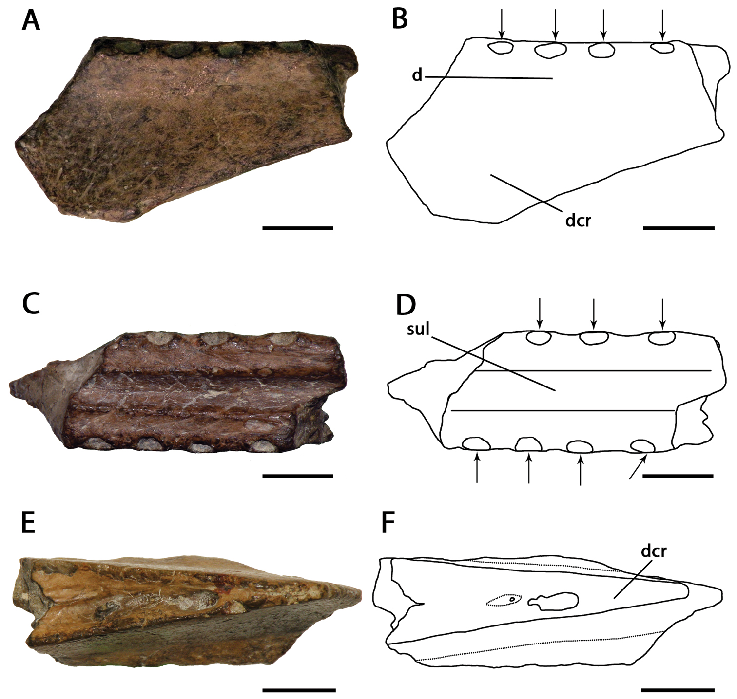 Lonchodraco machaerorhynchus comb. n. Holotype CAMSM B54855 (Albian, Cambridge Greensand), fragment of the mandibular symphysis A right lateral view B respective line drawing C dorsal view D respective line drawing E ventral view F respective line drawing. Abbreviations: d – dentary, dcr – dentary crest, sul – sulcus. Arrows indicate alveoli or teeth. Scale bar = 10 mm.